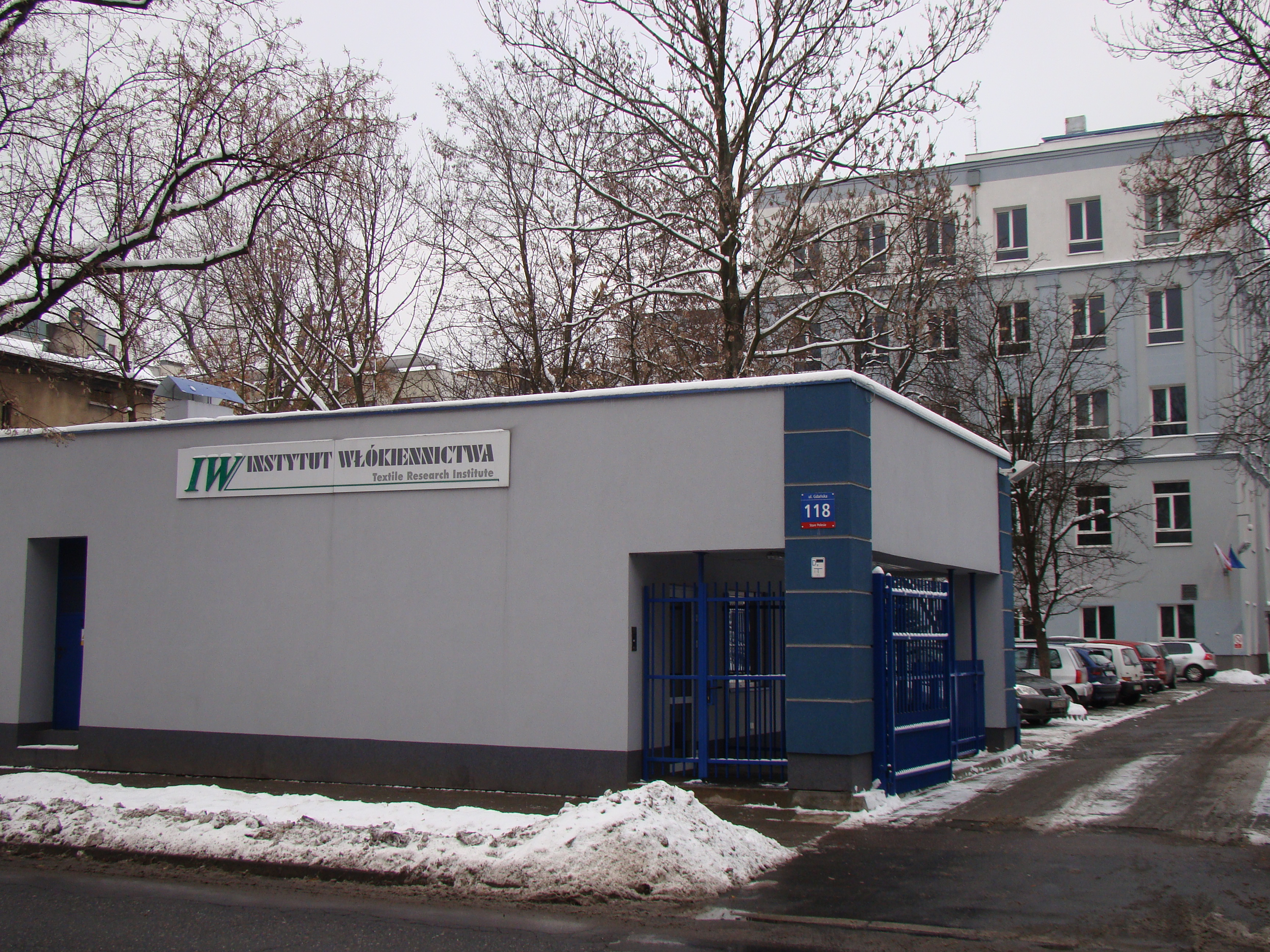 The Textile Research Institute (Łódź) – Gdańska Street